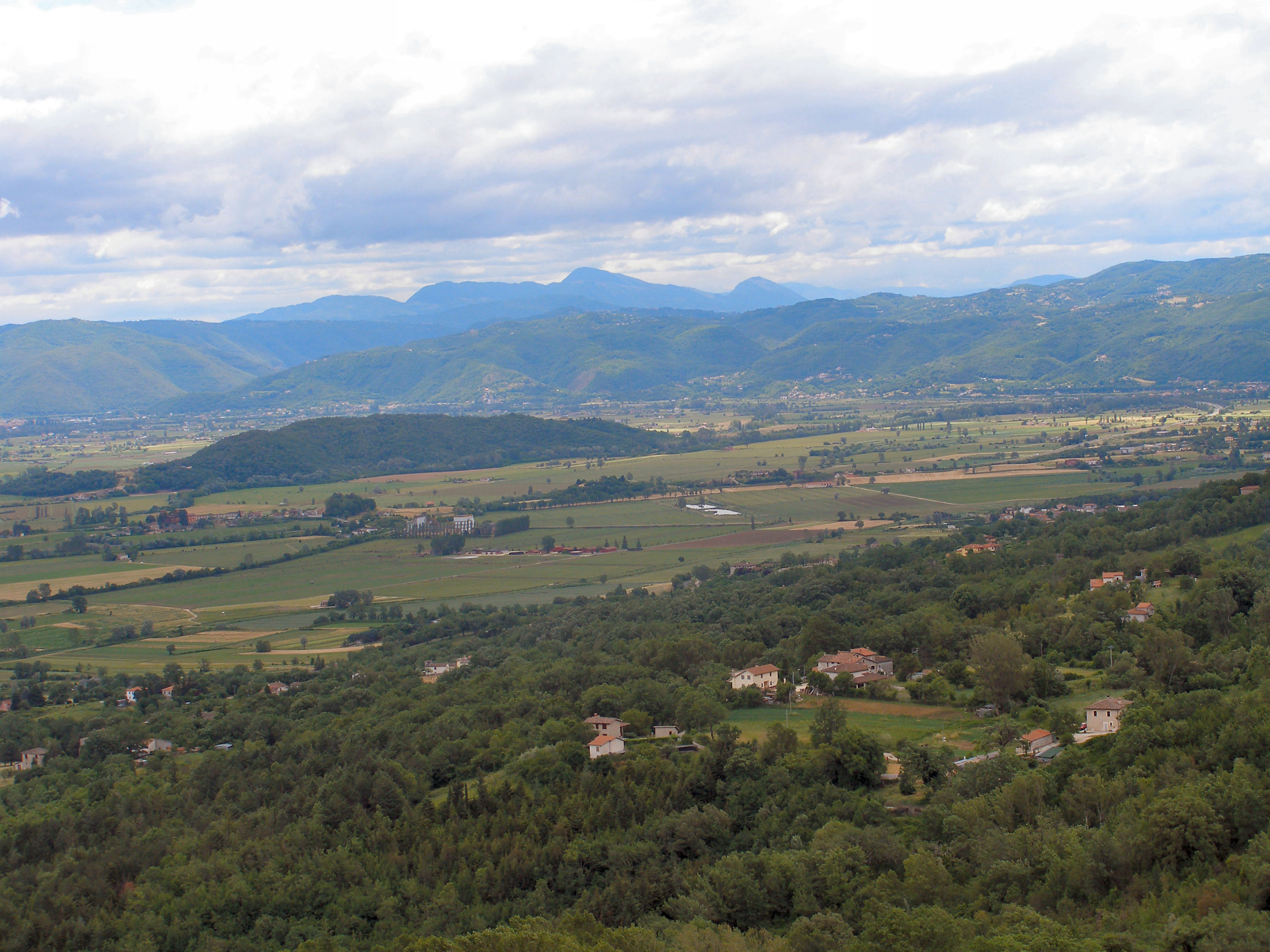 View from Greccio Convent